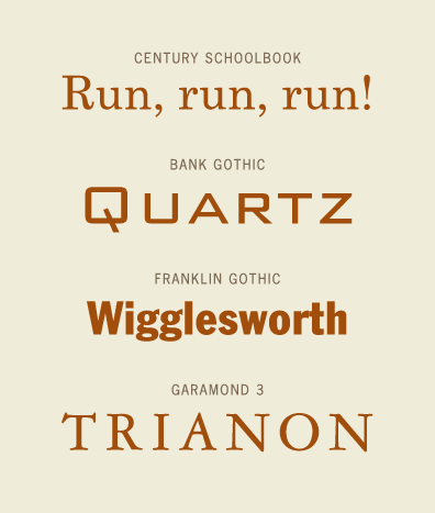 Specimens of typefaces by Morris Fuller Benton: Century Schoolbook, Bank Gothic, Franklin Gothic, Garamond 3. 13.07, Jim Hood.